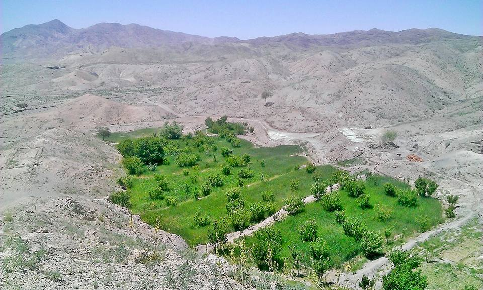 Ramazn Aka skhobai